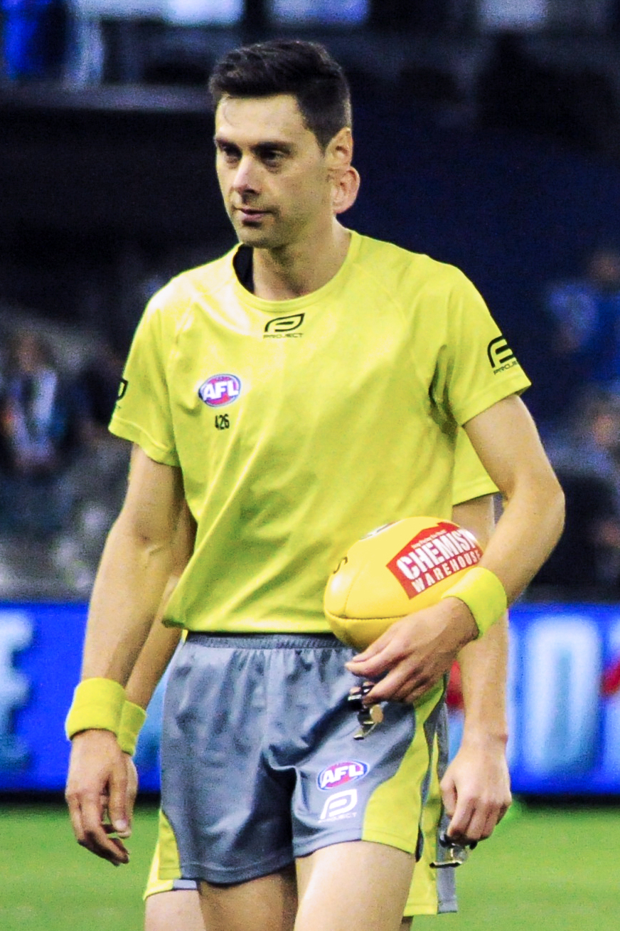 Craig Fleer during the AFL round six match between North Melbourne and Port Adelaide on Saturday, 28 April 2018 at Etihad Stadium in Melbourne, Victoria.